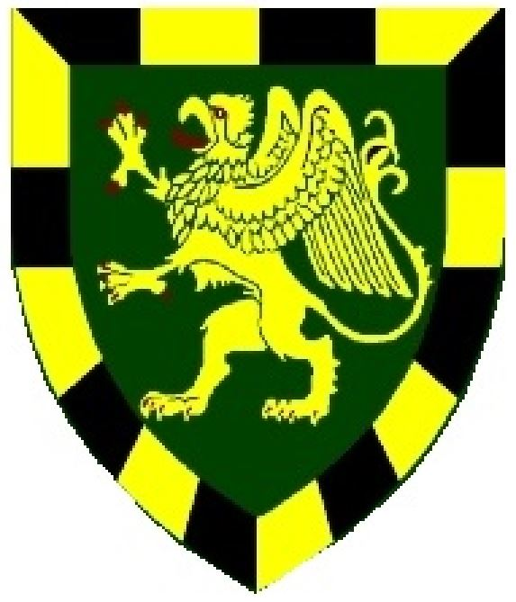 SANDF 3 SAI emblem